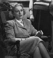 Emma Bernal- actriz argentina